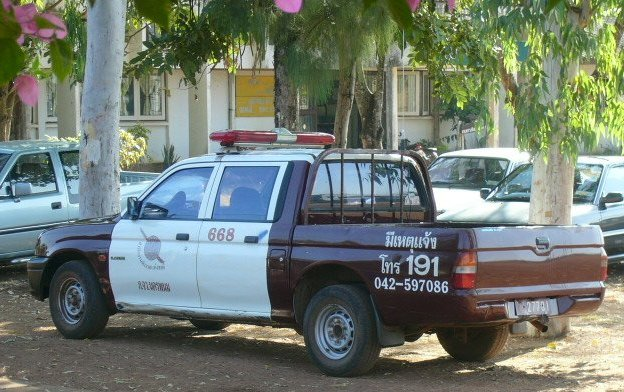 Typical rural Royal Thai Police patrol car, seen in Na Wa, Nakhon Phanom province.